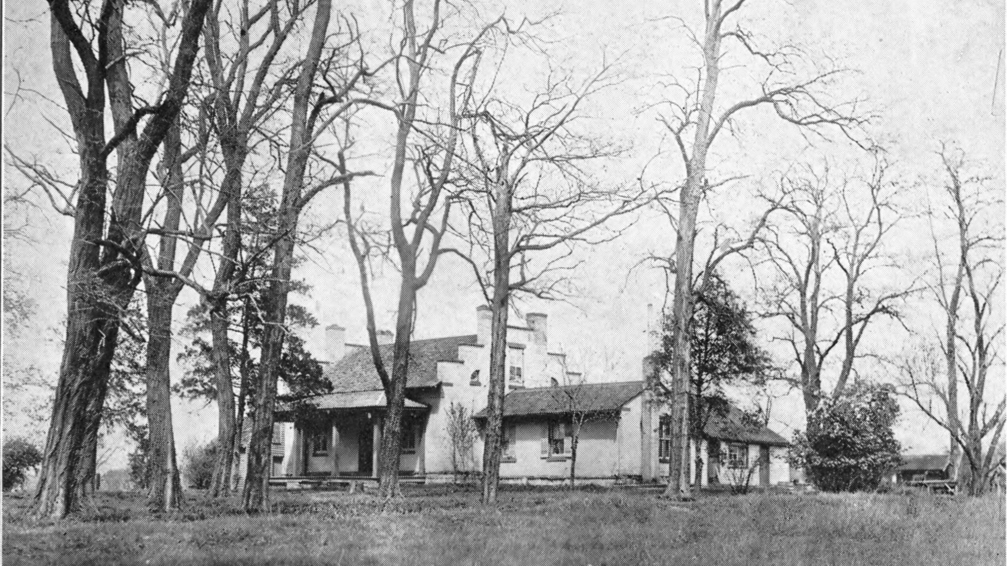 View of the house built by Major Newton Walker in Lewistown, Illinois, in 1851. The image is extracted from "The Spoon River Country" by Josephine Craven Chandler.